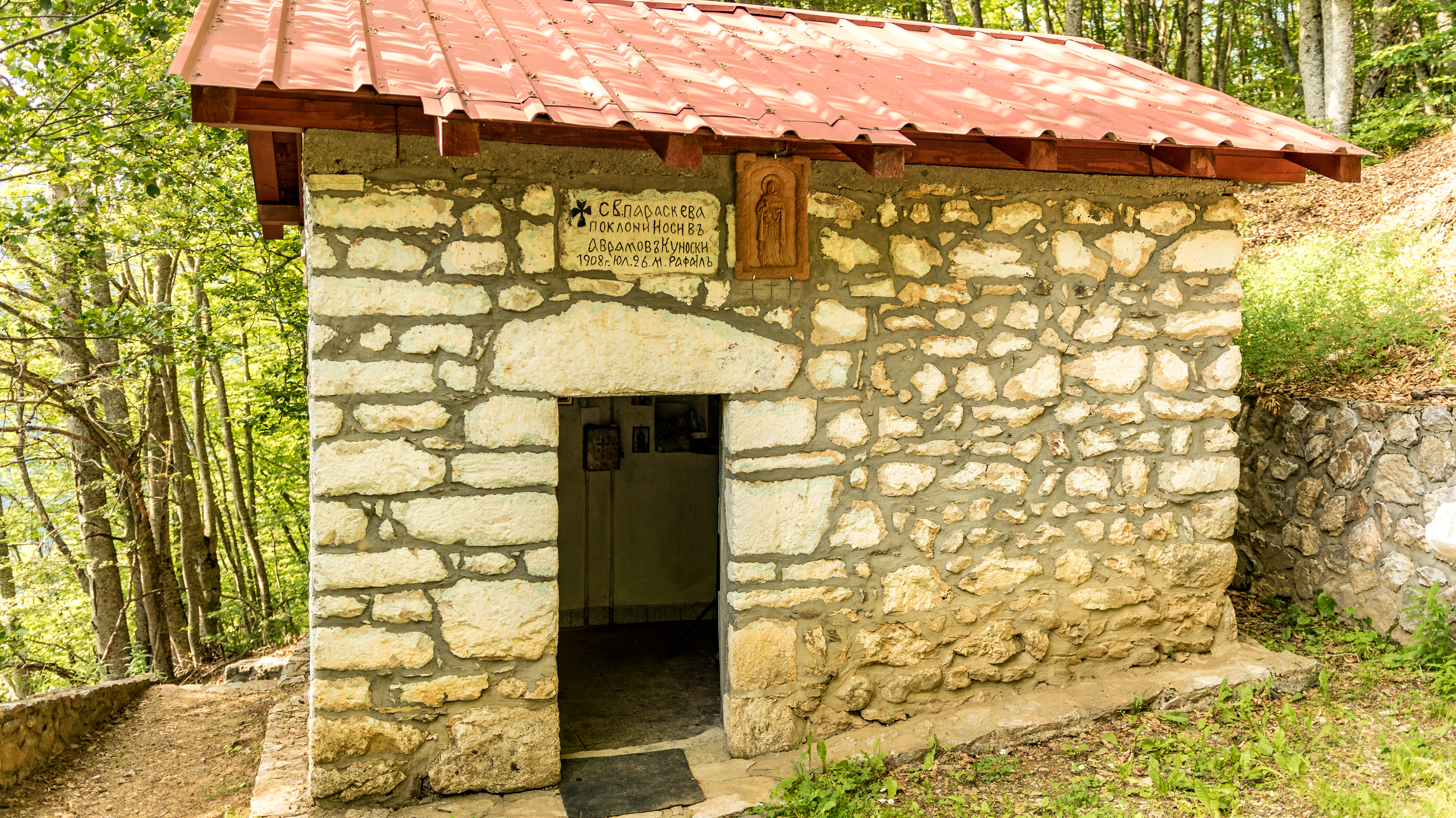 View of the St. Petka Church in the village Lazaropole